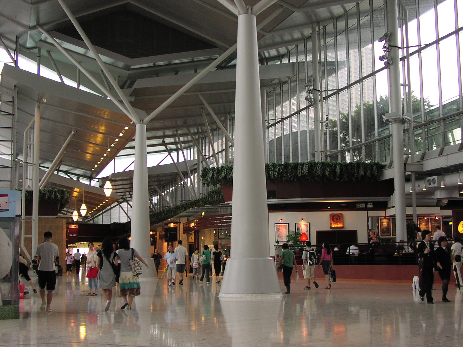 Citygate